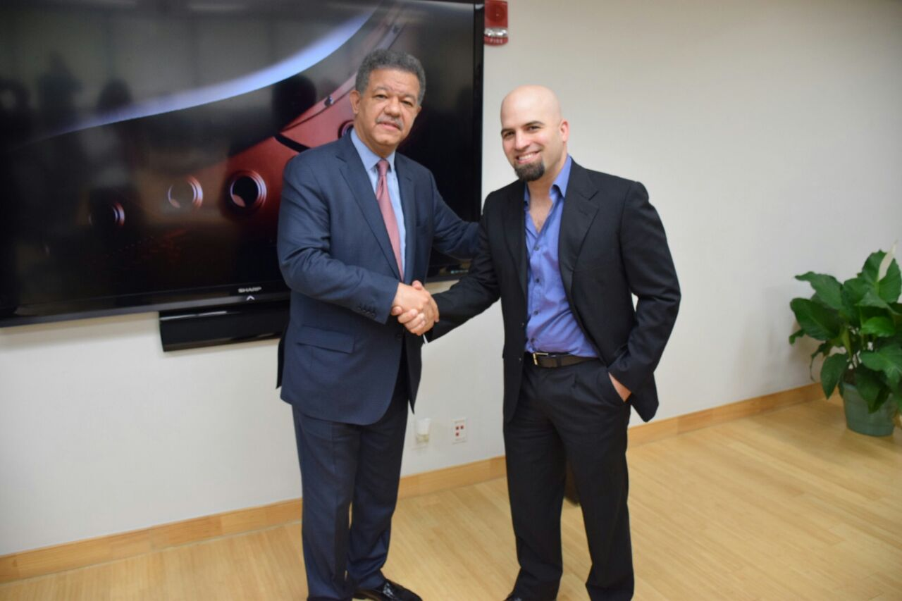 President Leonel Fernandez sealing a deal to produce 12 films in the Dominican Republic